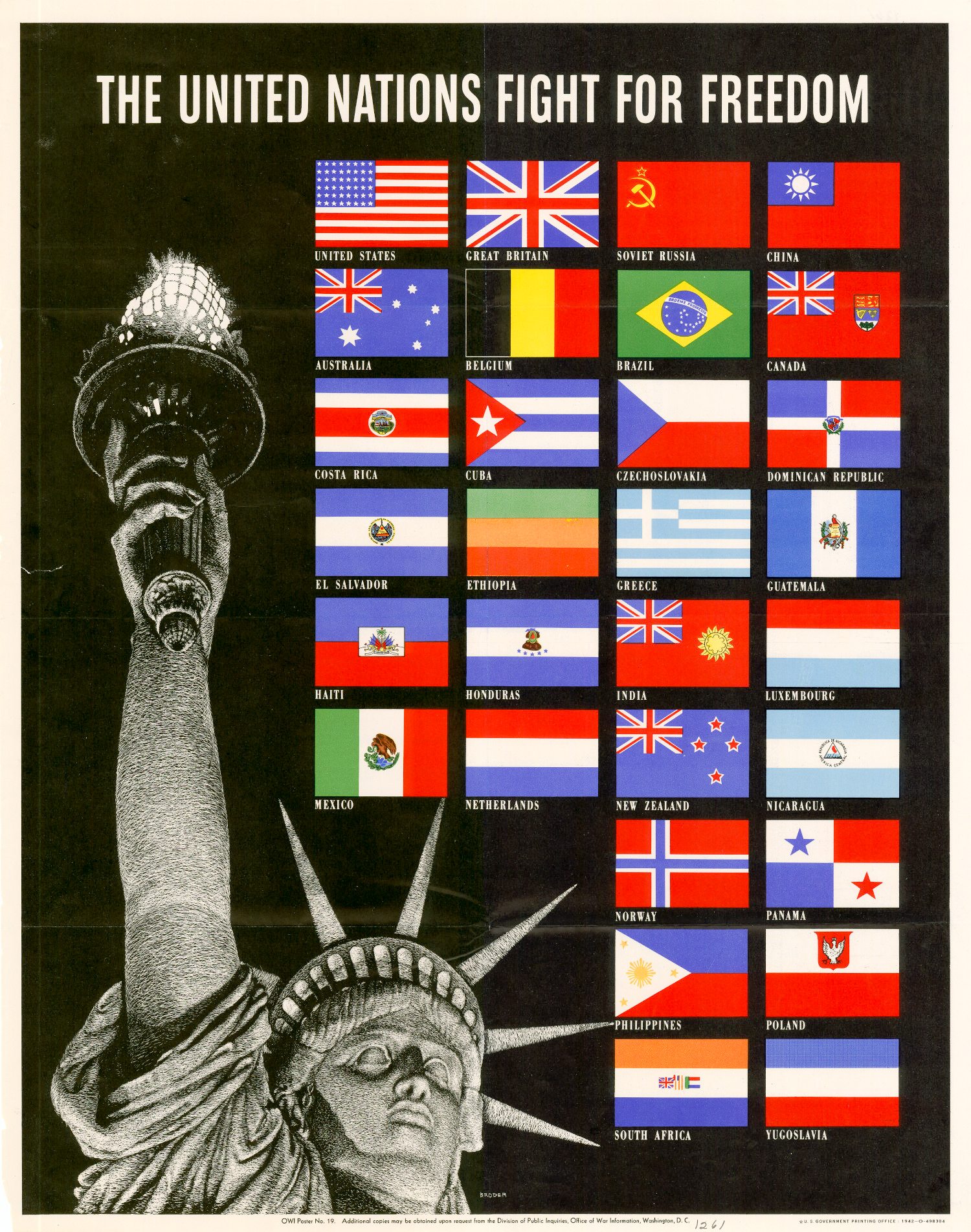 Poster depicts an etching of the Statue of Liberty on a black background on the left side of the poster. On the right there are pictures of flags of 30 countries. The flags of the wartime "big four" are in the top row, while the others are listed in alphabetical order below. Poster has black background with white text at the top of the page and a white border all around. Colour poster. 71 x 56 cm.